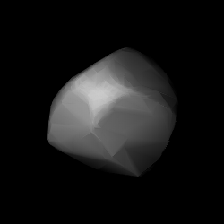 3D convex shape model of 400 Ducrosa, computed using light curve inversion techniques. J. Hanuš, J. Ďurech, M. Brož, B. D. Warner (June 2011). "A study of asteroid pole-latitude distribution based on an extended set of shape models derived by the lightcurve inversion method". Astronomy and Astrophysics 530: A134. ISSN 0004-6361. arXiv